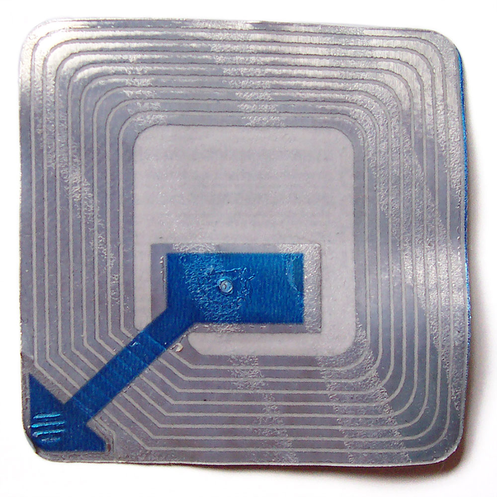 security bar code label, Electronic article surveillance